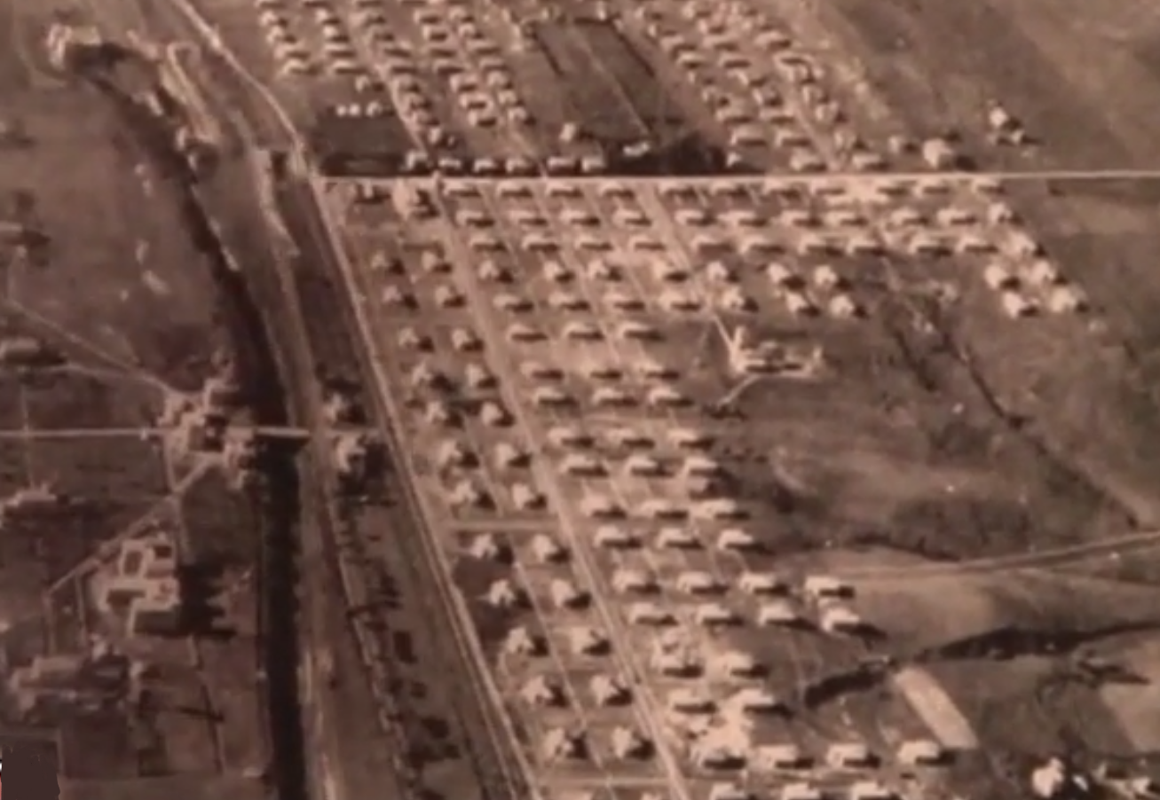 Vista aerea